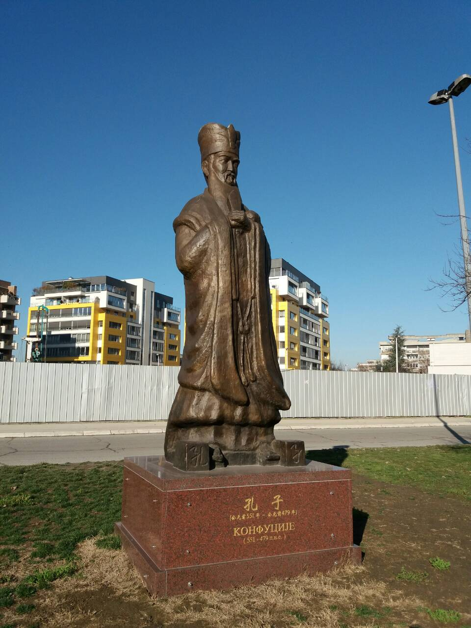 Мonument of Confucius in New Belgrade